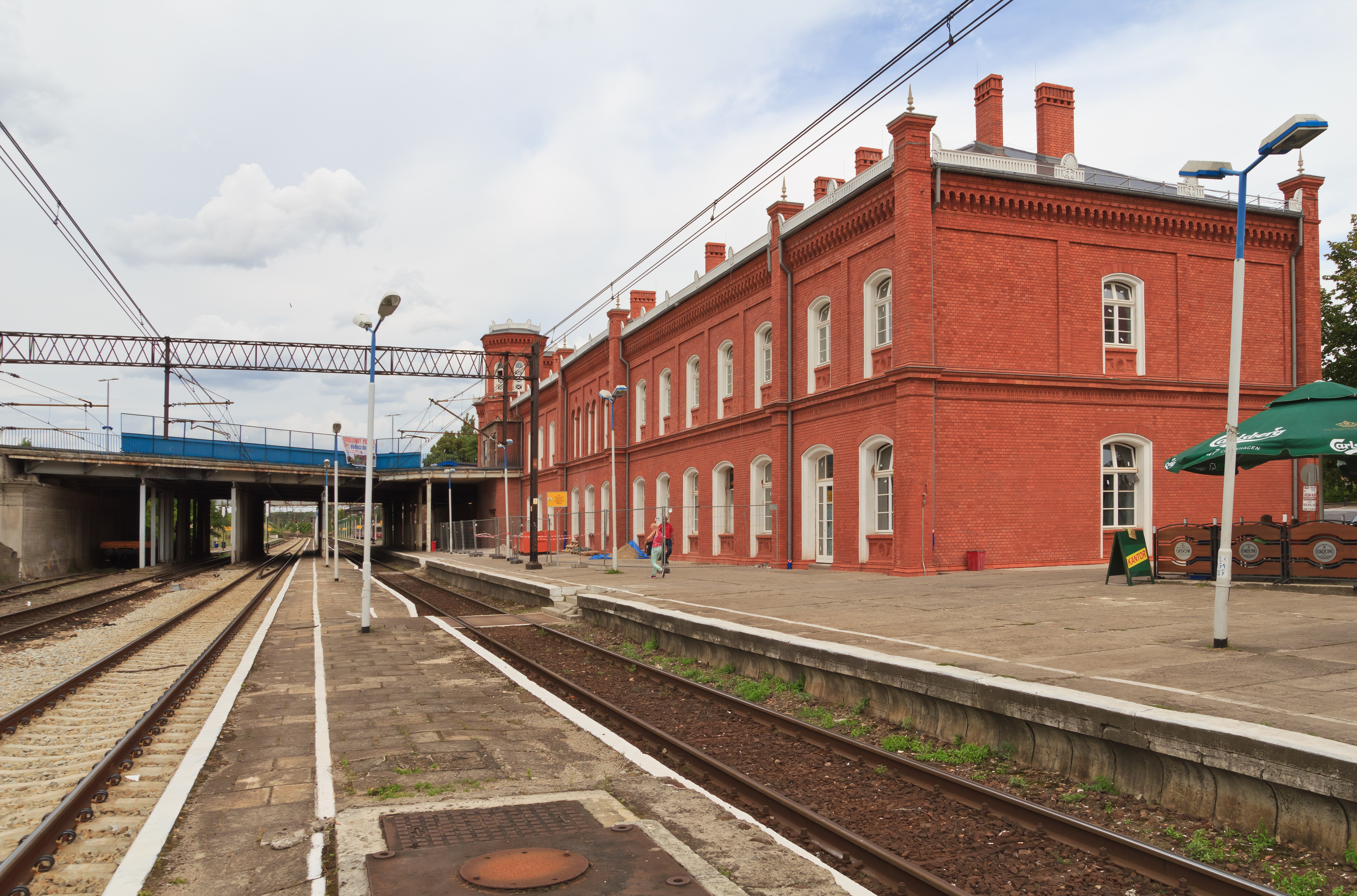 Train station of Kostrzyn, Lubusz Voivodeship, Poland